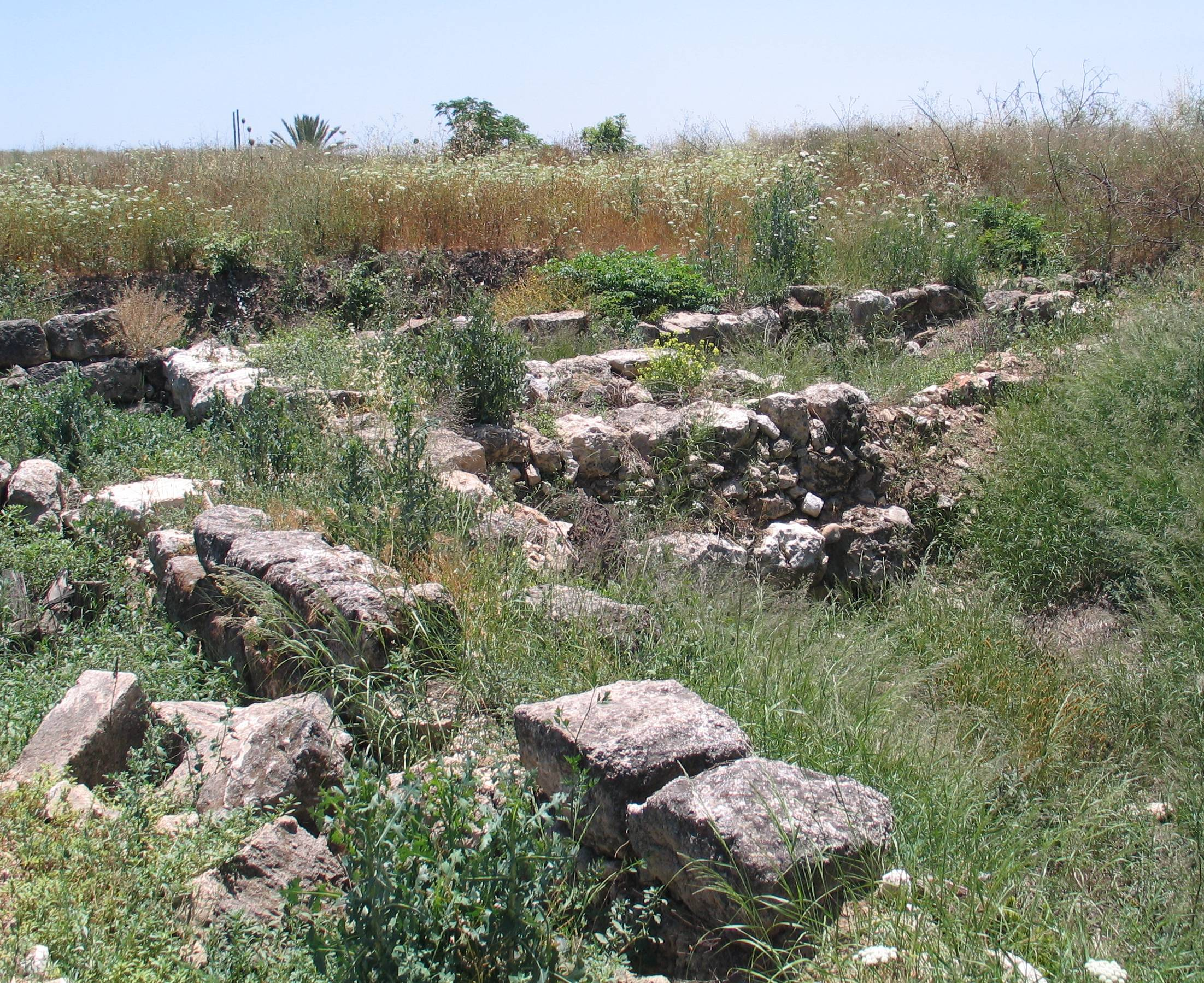 Ruins of Antipatris, Tel Afek, Yarkon national part, Israel.